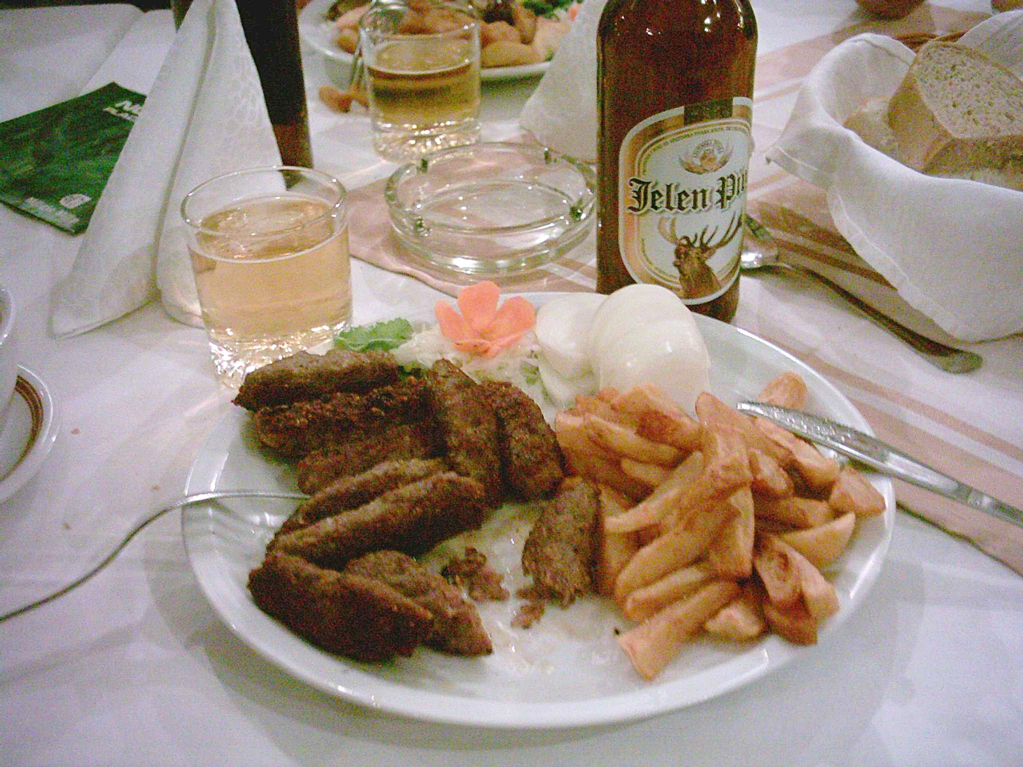 Cevapcici with french fries and salad. Photo taken in restaurant in Novi Sad, Vojvodina, Serbia.